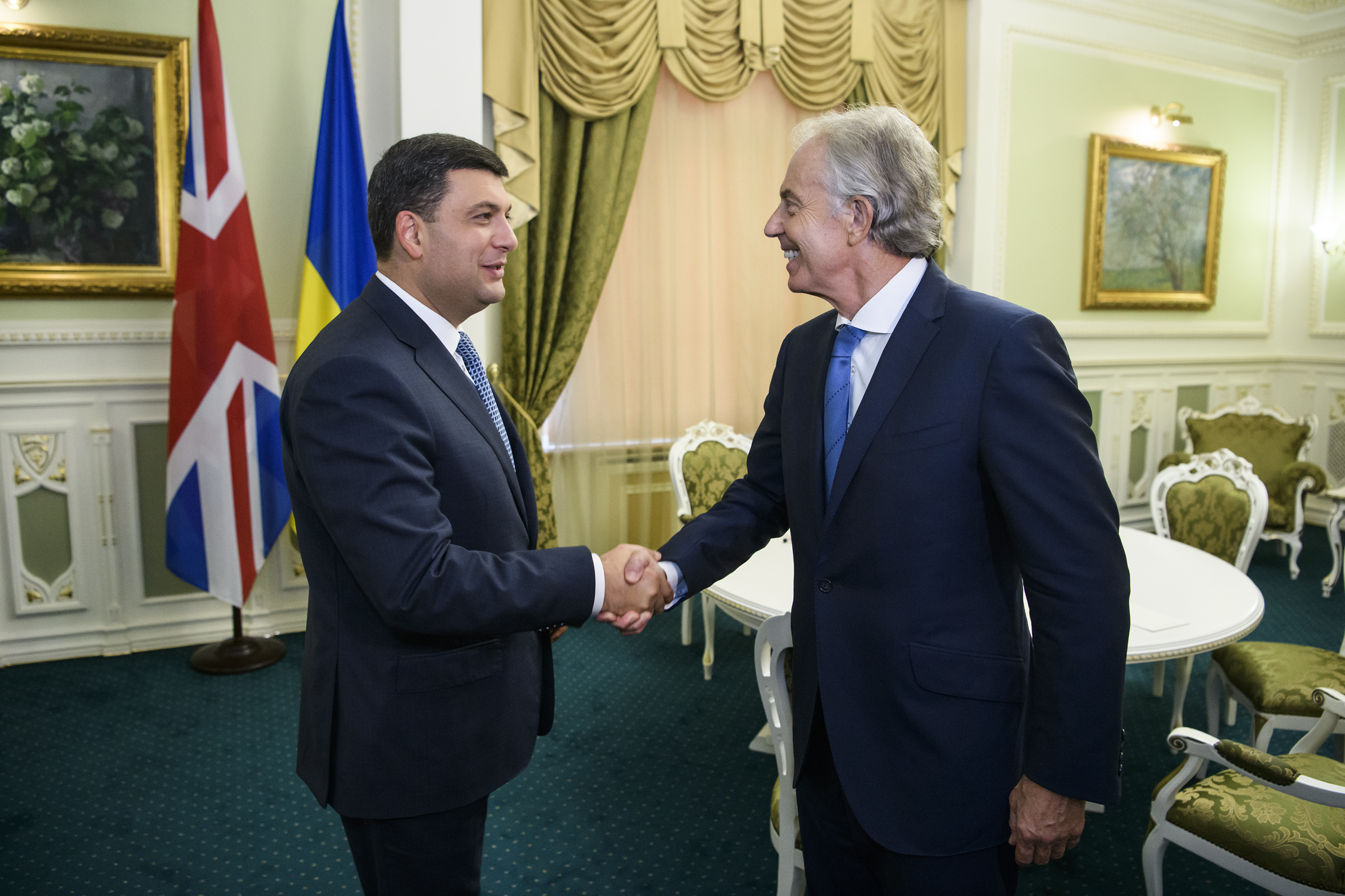 Prime Minister of Ukraine Volodymyr Groysman met with former Prime Minister of Great Britain Tony Blair